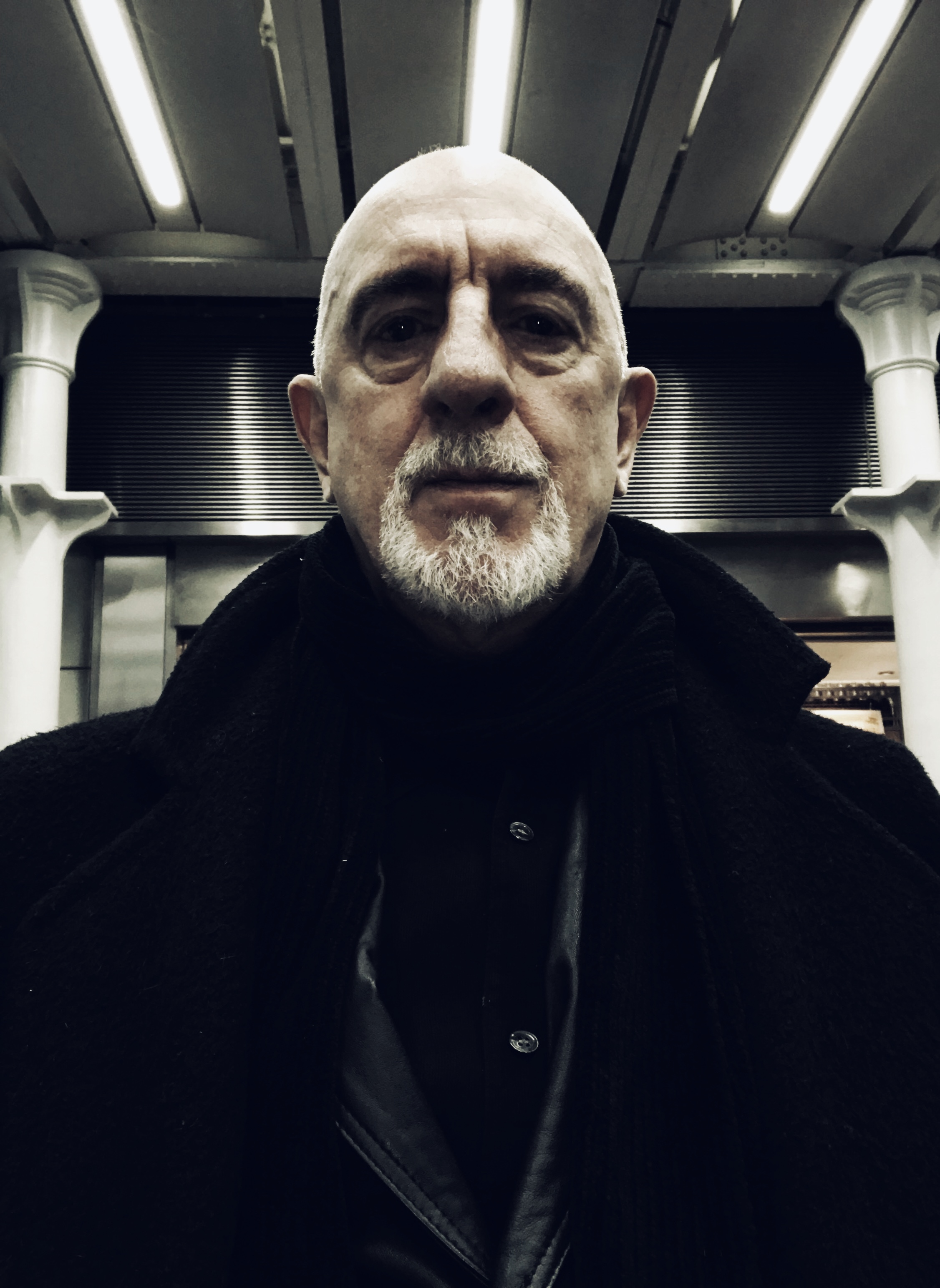 Christmas Eve 'Selfie' December 24th 2018 at St.Pancras station.